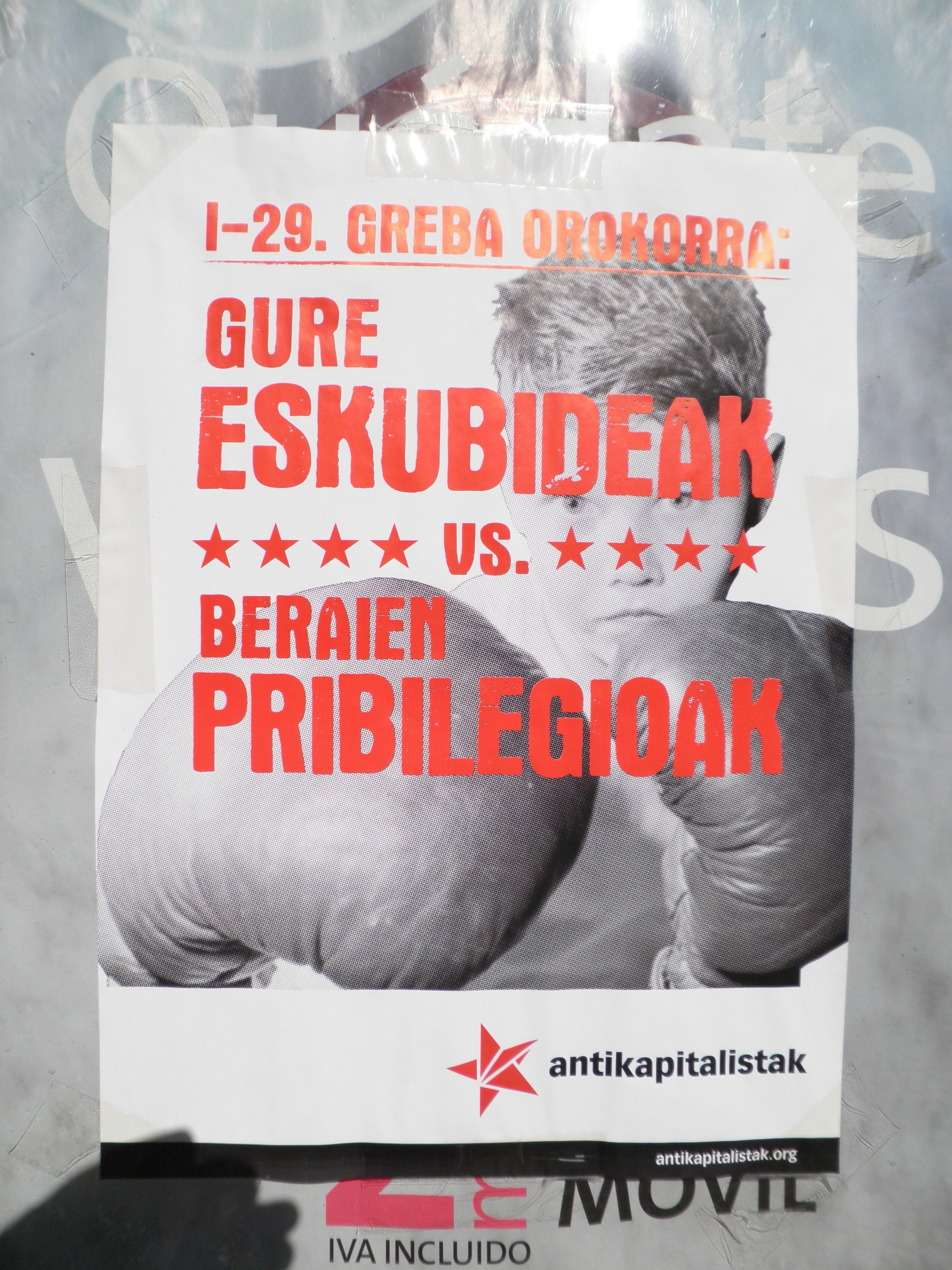 General strike in the Basque Country (2010-09-29):Our rights against their privileges.